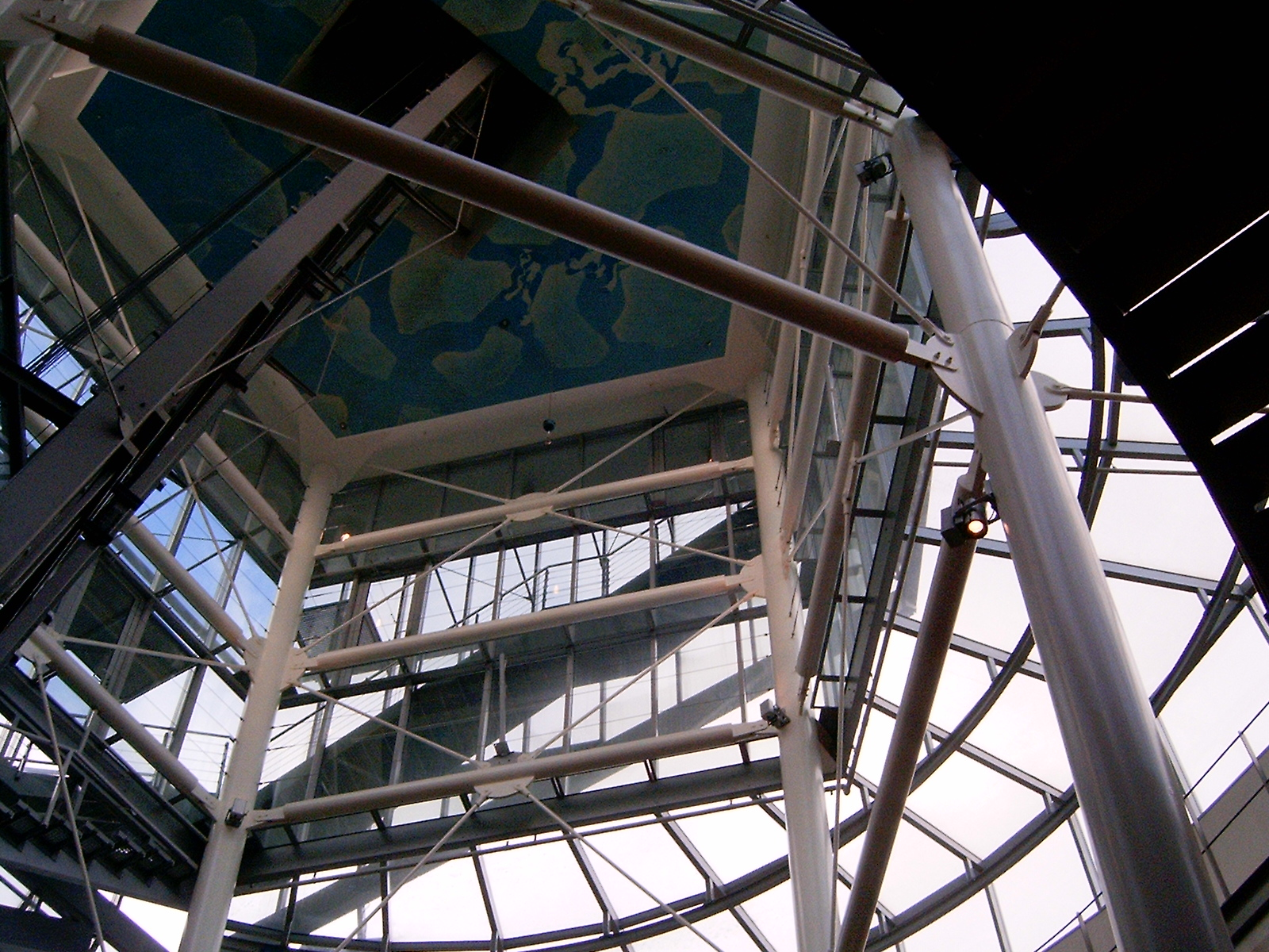 Top of the Kalvertoren